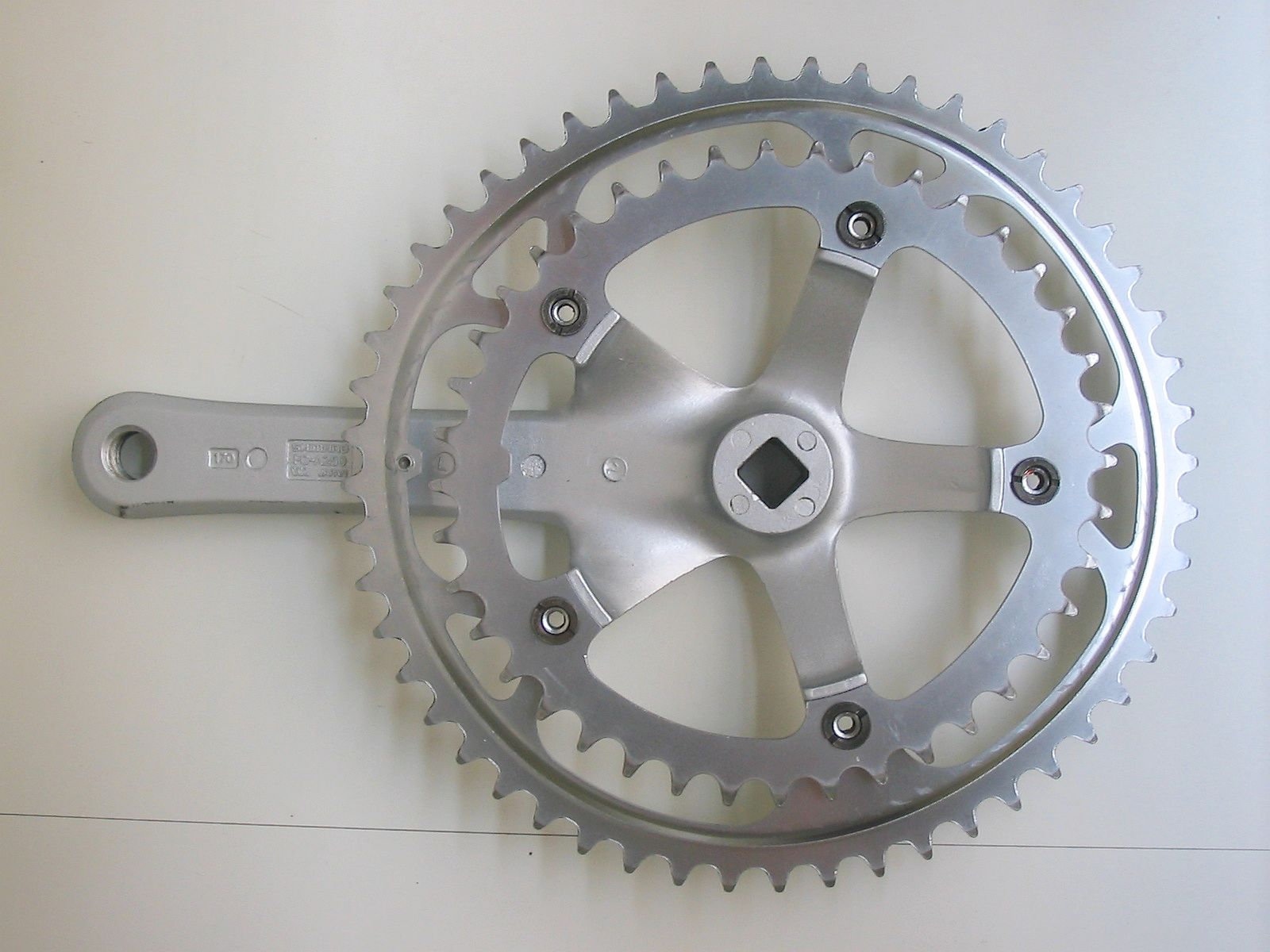 Shimano BioPace road